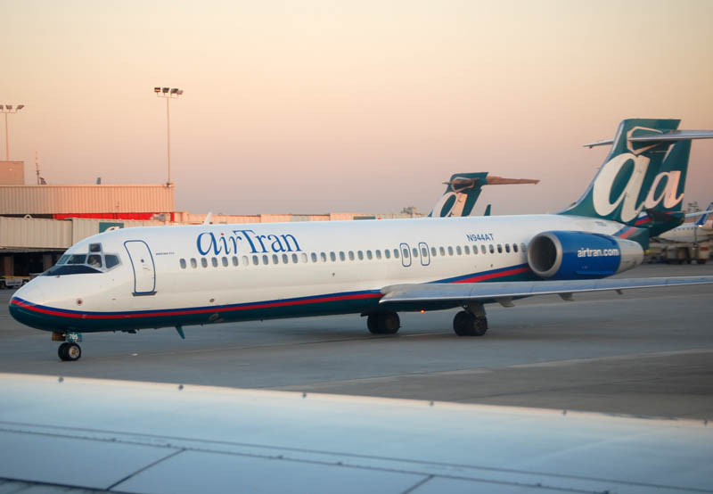 5-21-08 Harsfield-Jackson International (ATL). AirTran Boeing 717-2BD at Atlanta at dusk. Taken from the window of a Delta 737-800.